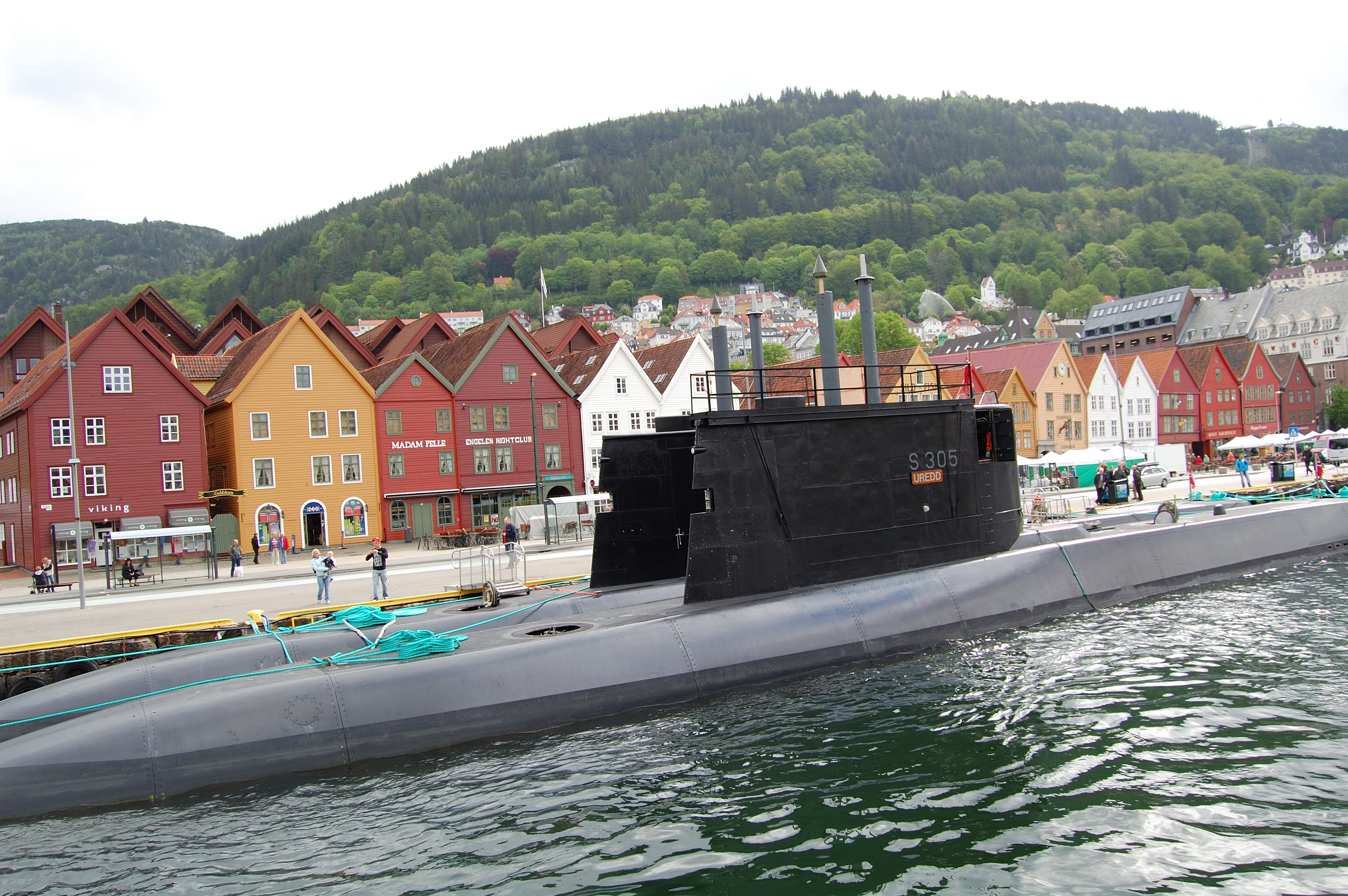 Norwegian Ula-class submarines S304 Uthaug and S305 Uredd (in front) in Bergen.